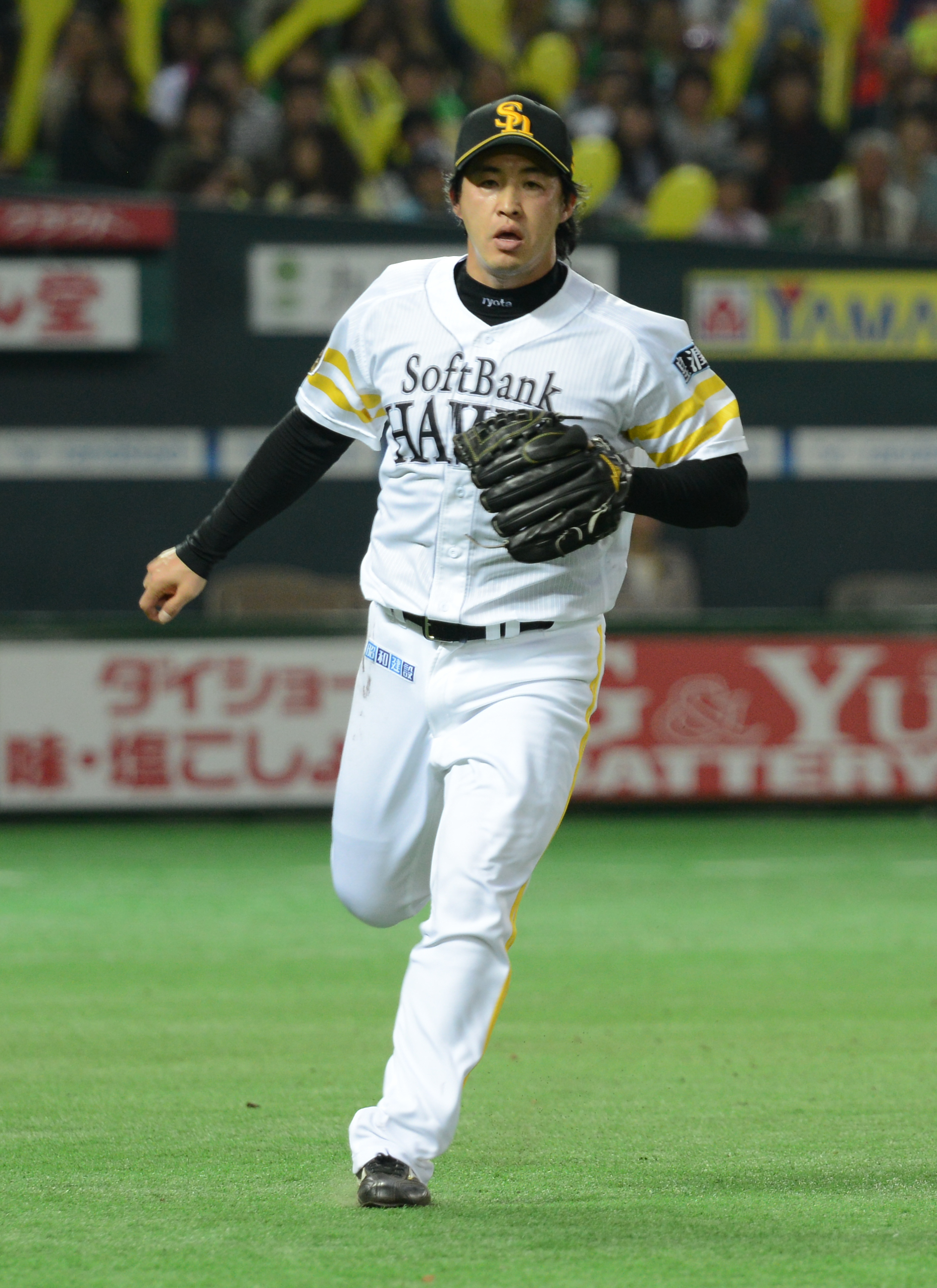 Ryota Igarashi, pitcher of the Fukuoka SoftBank Hawks, at Fukuoka Dome.